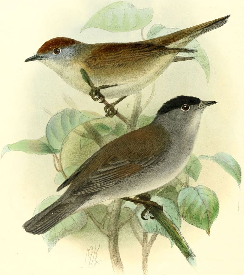 Sylvia atricapilla. Dresser